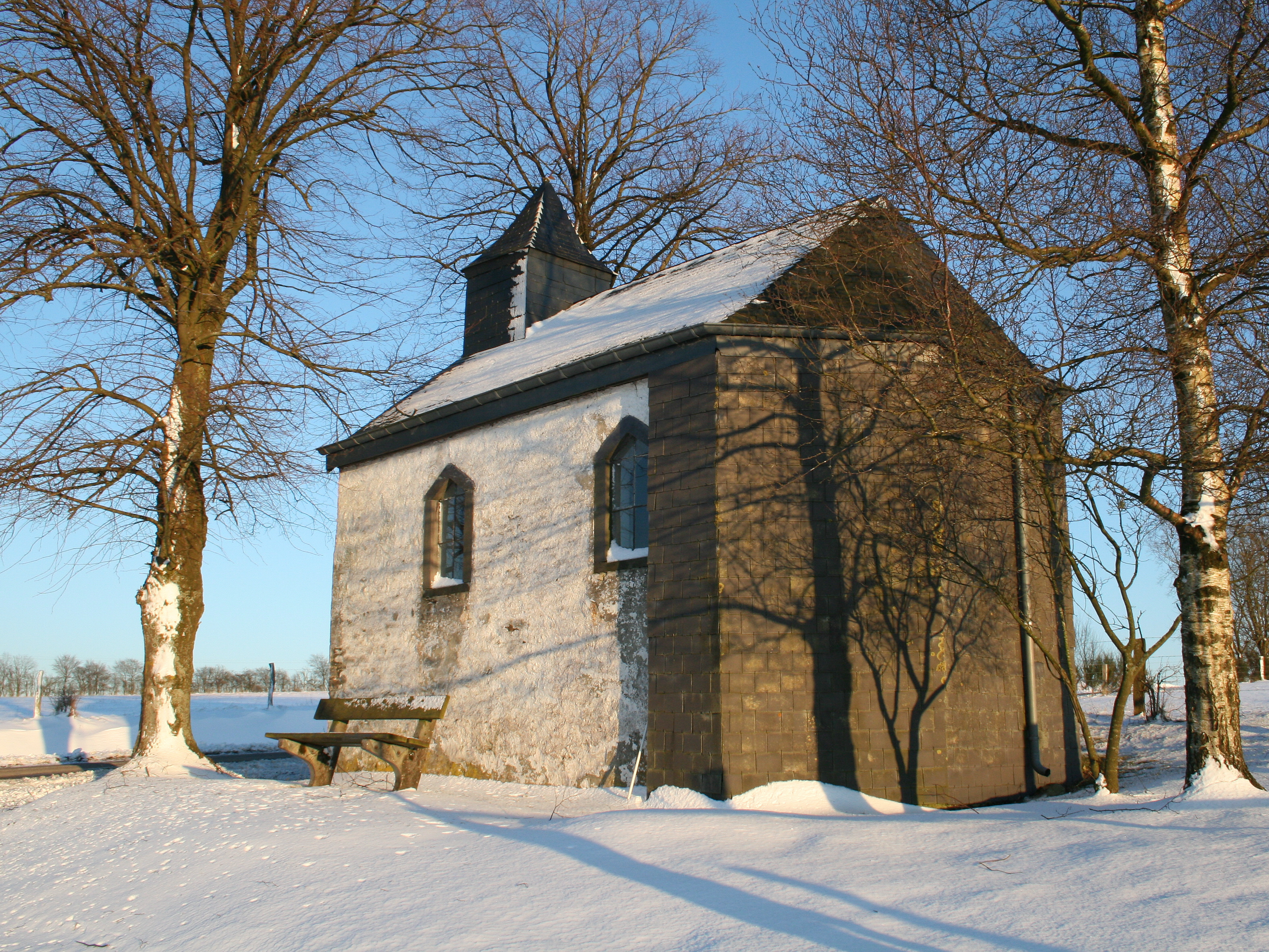 Bérismenil (Belgium), the Notre-Dame de Lourdes and Saint Gotte chapel (1882).